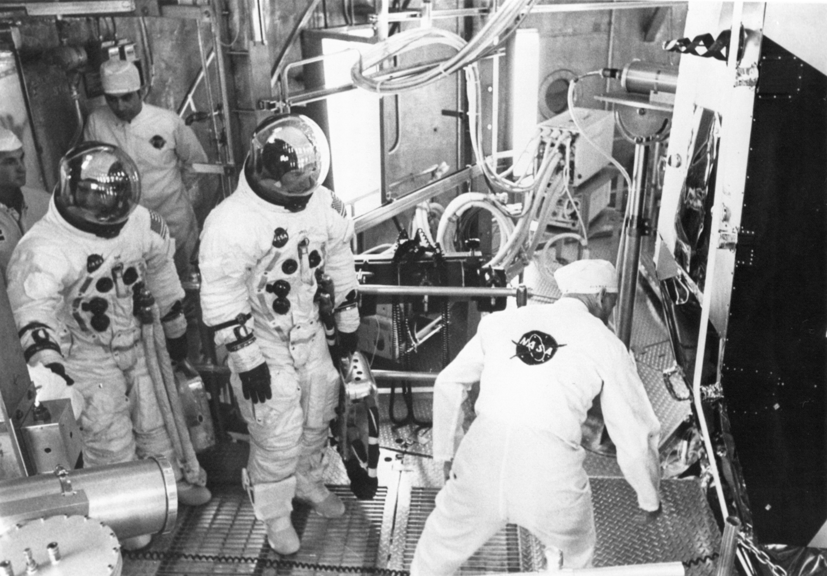 Suit technician Joe Schmidt assists Apollo 11 backup lunar module pilot Fred W. Haise, Jr., left, and James A. Lovell, backup crew commander, into lunar module for manned altitude run. Photo filed 20 March 1969.